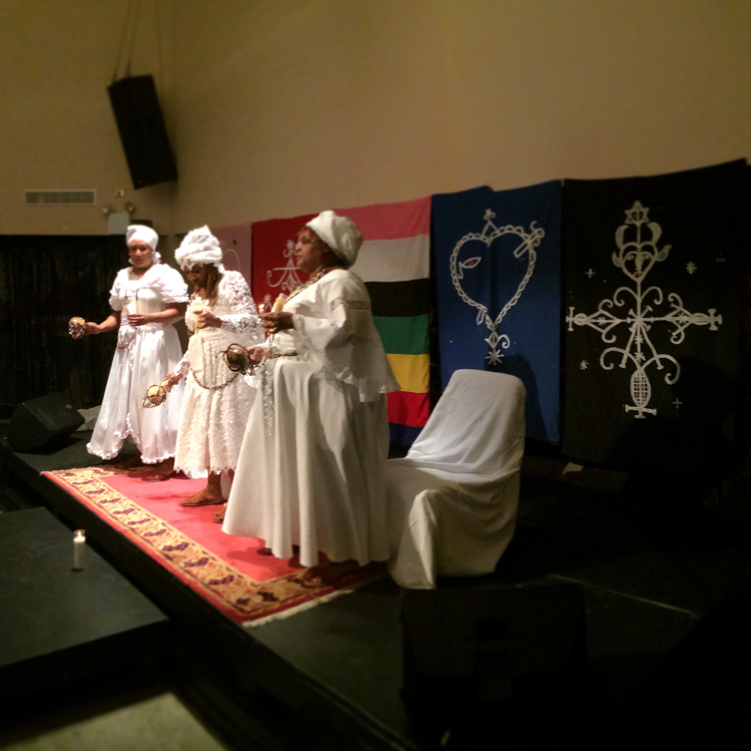 Swearing-in ceremony of the first ever GwètòDe's for the Haitian diaspora by Konfederasyon Nasyonal Vodouyizan Ayisyen (KNVA) held 2/25/2017 at National Black Theatre in Harlem NYC. GwètòDe's are the clergy of Haitian Vodou, representing the interests of Haitian vodouyizan in a specific geographic region. In this ceremony GwètòDe's were sworn in for the state of New York (Manbo Florence Jean-Joseph, pictured center), the state of Massachusetts (pictured left) and for Canada (Manbo Fabiola Abelard, pictured right). KNVA is a Haiti-based organization that designates the Ati National, the head of Haitian Vodou and all of the vodou clergy, for certification by the Haitian government. The Haitian Constitution of 1987 gave Vodouyizan the same rights as practitioners of other faiths.